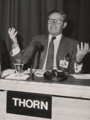 Gaston Thorn at the World Economic Forum, 1986